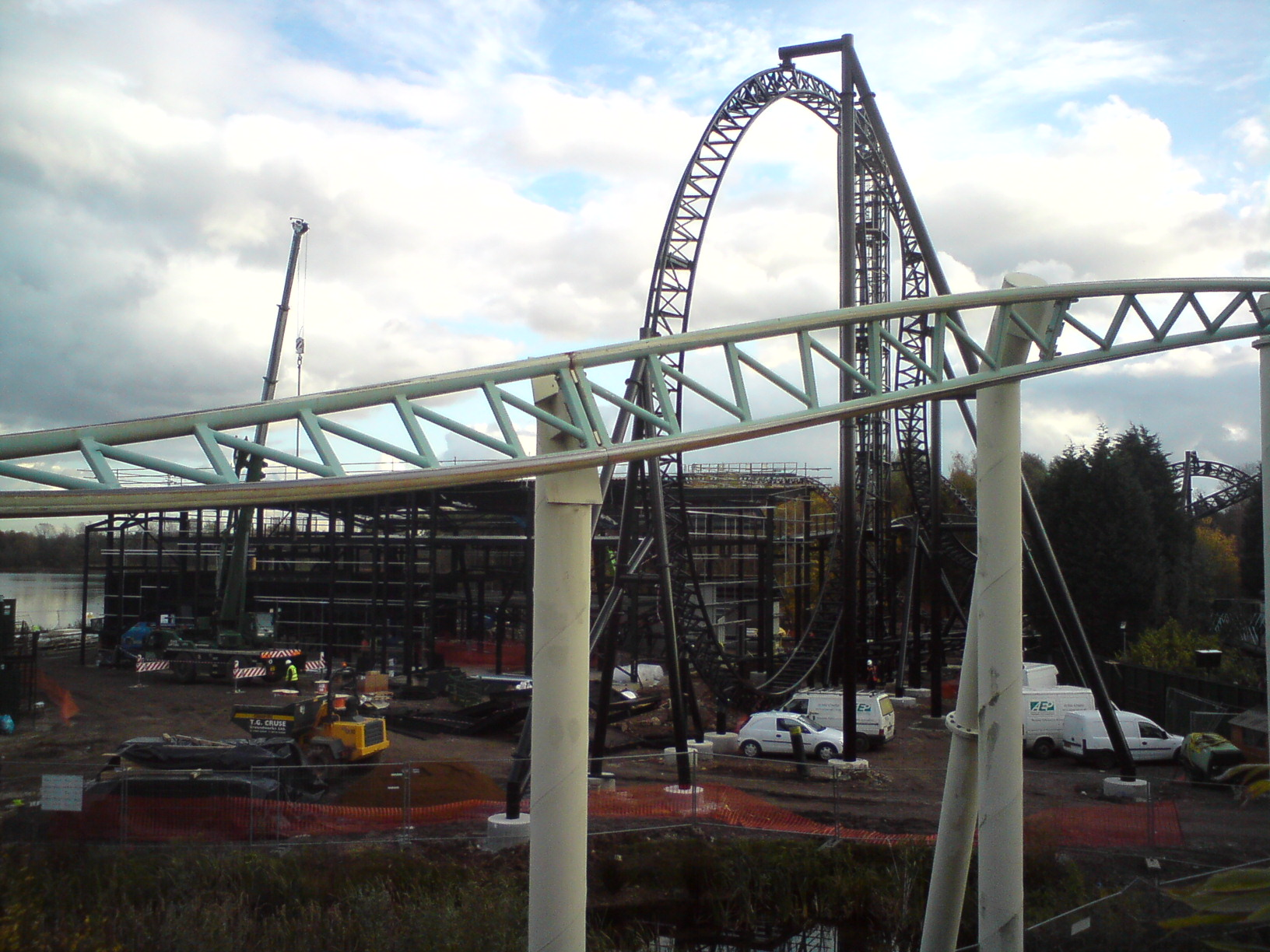 Saw: The Ride under construction 28/10/08